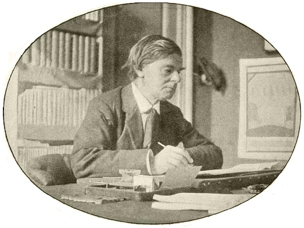 Jeronimo de Vries (1838-1915), vicar, poet and essayist